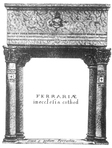 Tomb of Urban III. From Reardon, The Deaths of the Popes, p. 98